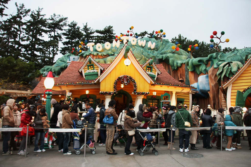 Meet Mickey